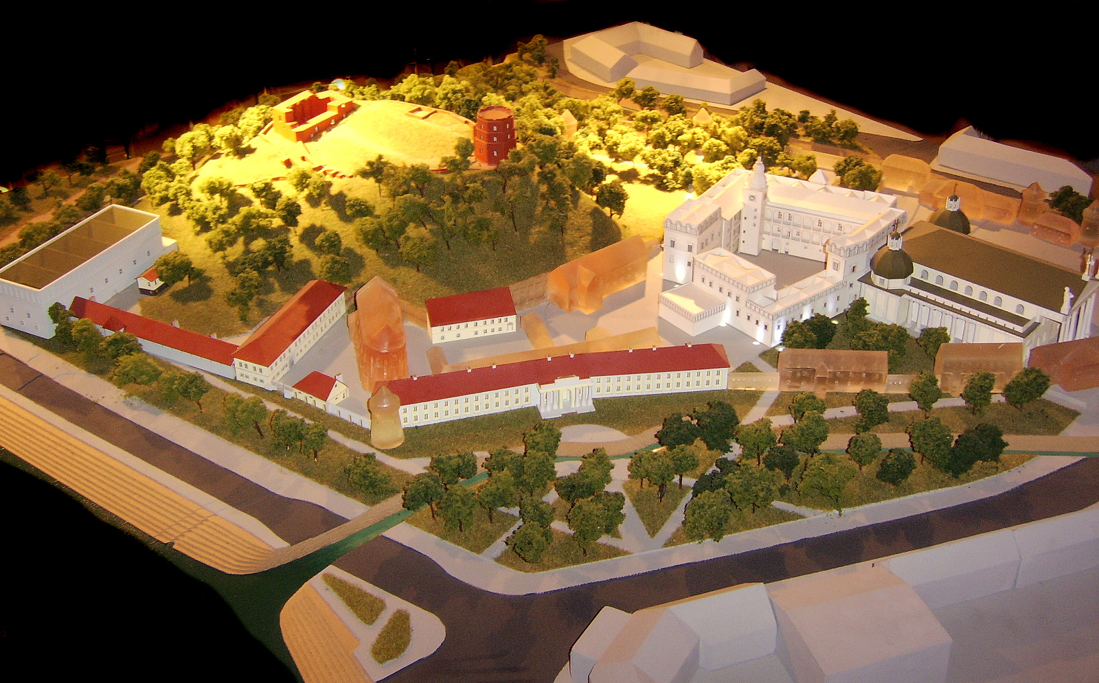 Model of castles in Vilnius